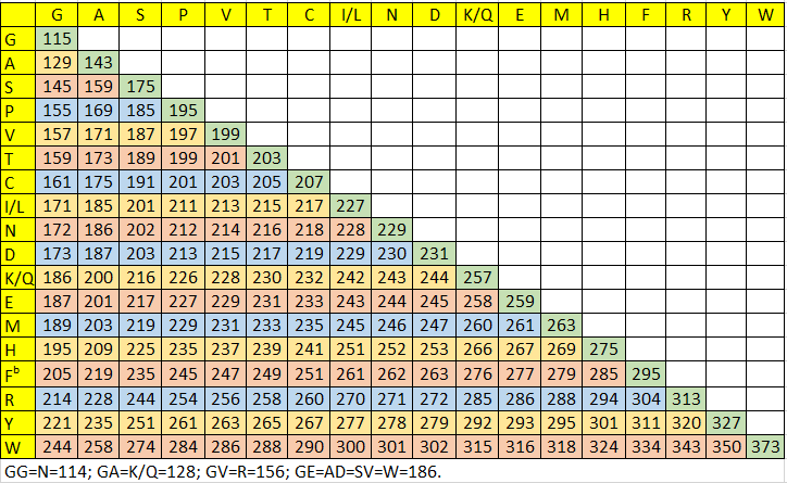 mass fo b2-ions in peptide fragmentaion